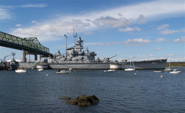 U.S.S. Massachusetts Battleship, Fall River, Massachusetts, with Braga Bridge in background.